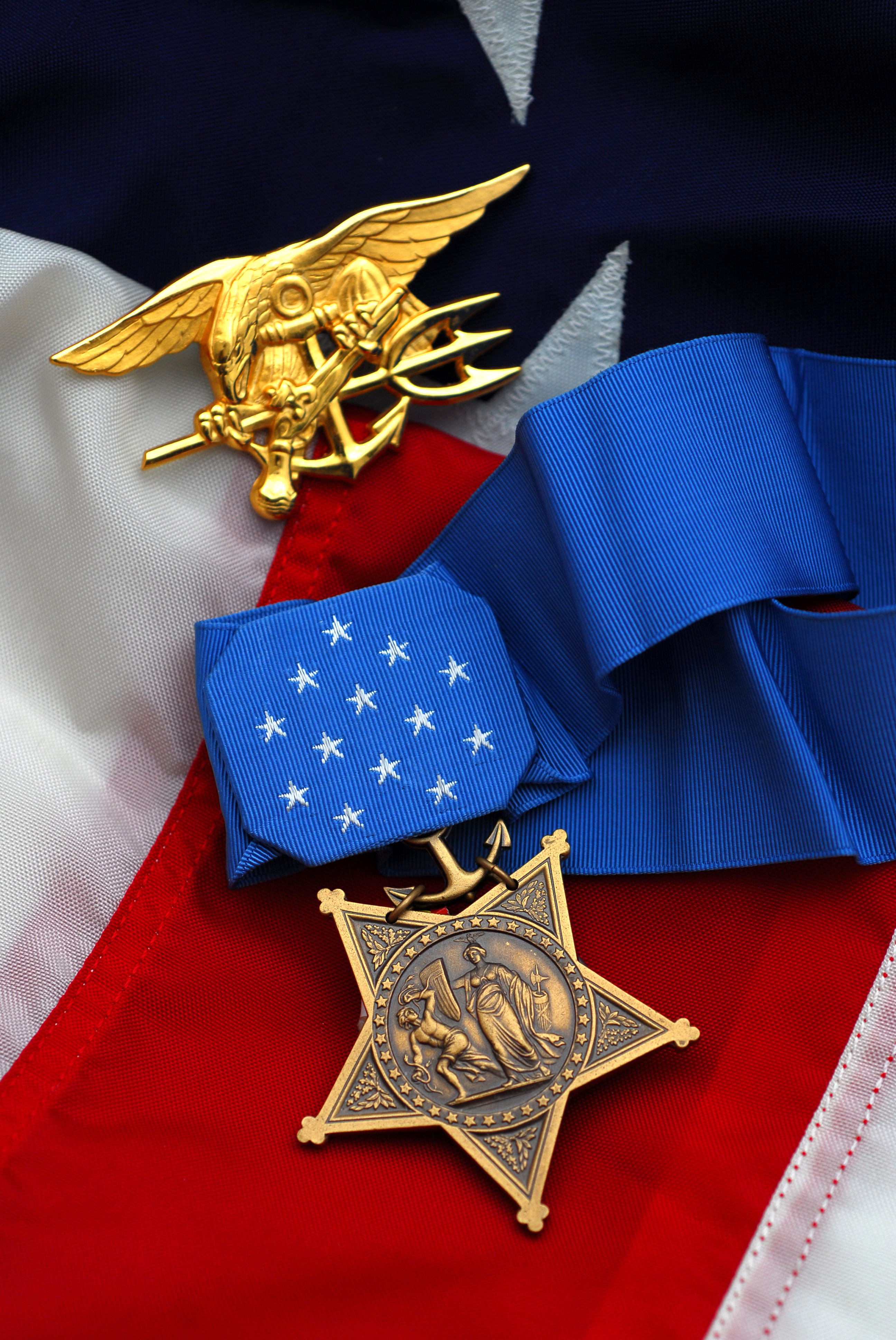 080314-N-3404S-115 Pentagon, Washington, D.C. (March 14, 2008) – Actual Medal of Honor prepared for presentation posthumously to Master-At-Arms 2nd Class (SEAL) Michael A. Monsoor who sacrificed himself to save his teammates during combat operations in Iraq, Sept. 29, 2006. Medal is pictured with the Navy Special Warfare (SEAL) Trident. The parents of Master-At-Arms 2nd Class (SEAL) Michael A. Monsoor will accept the nation's highest military honor on behalf of their son during a White House ceremony April 8, 2008. Monsoor is the first Navy SEAL to earn the Medal of Honor for actions in Iraq and the second Navy SEAL to receive the award since Sept. 11, 2001. Monsoor is the fifth armed forces service member to receive the Medal of Honor since the beginning of Operations Enduring Freedom and Iraqi Freedom. U.S. Navy photo by Mr. Oscar Sosa (Released)